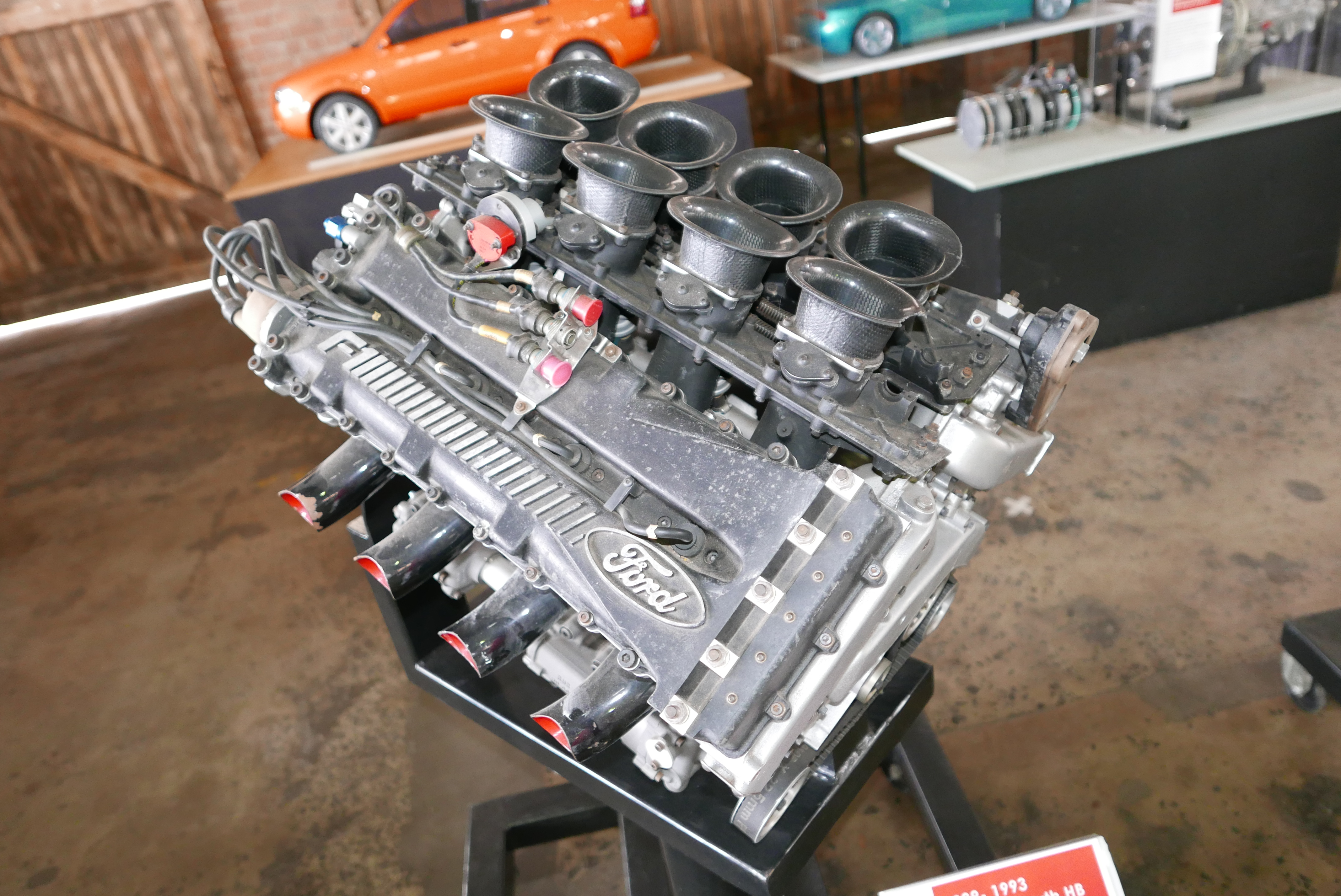 1989–1993 Ford Cosworth HB Formula One engine. Photographed at the Geelong Museum of Motoring and Industry, North Geelong, Victoria, Australia.